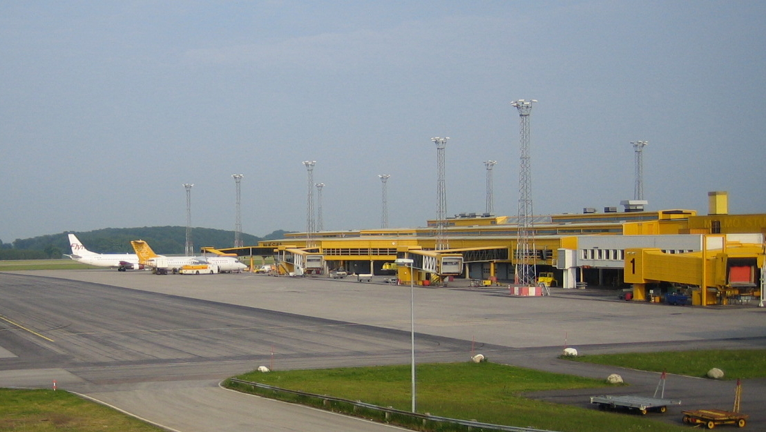 Sturup airport near Malmö in Sweden